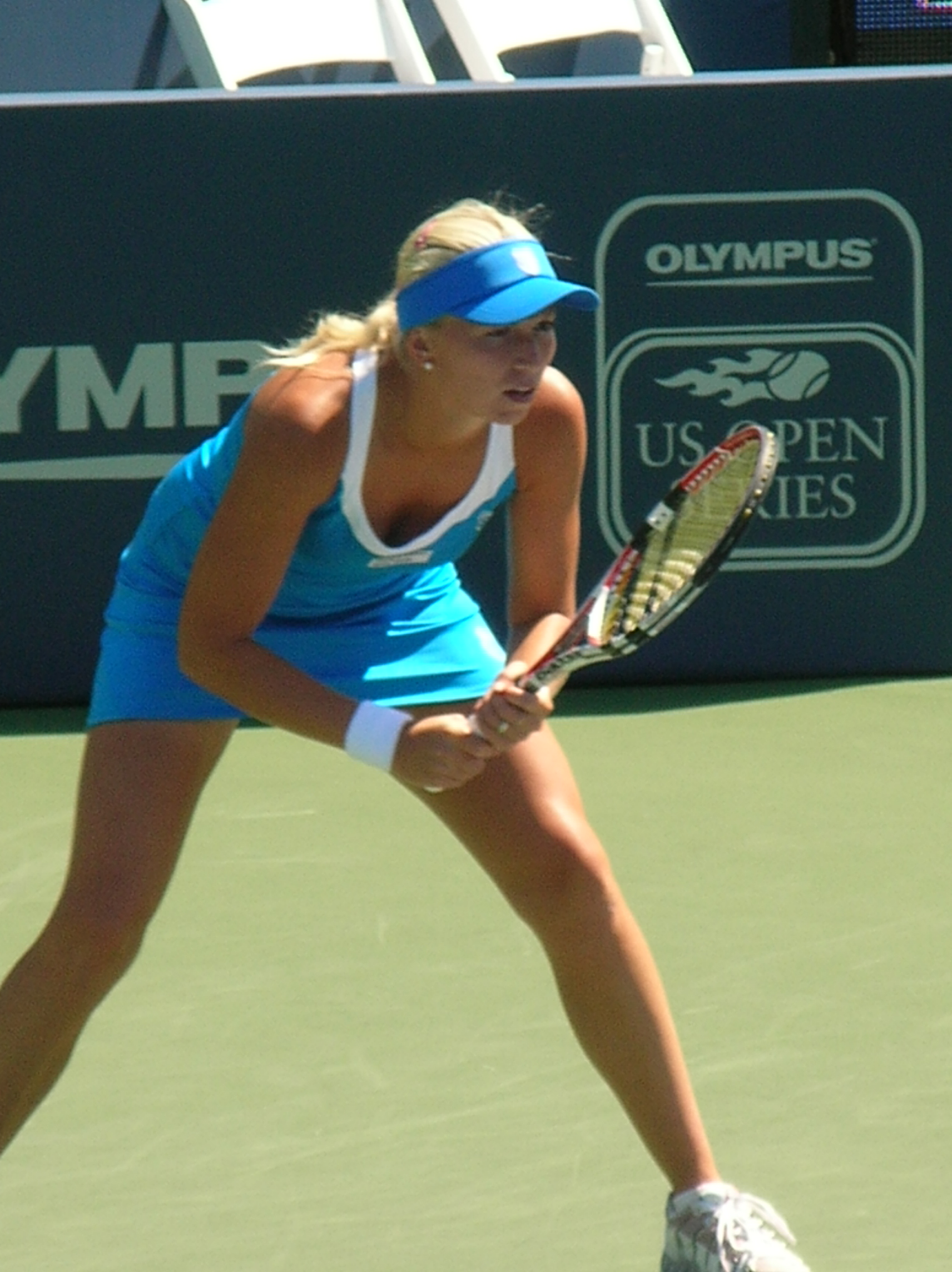 Michaëlla Krajicek in the second round of qualifying at the Bank of the West Classic at Stanford. She defeated Natalie Grandin 6-4, 7-6 (3).